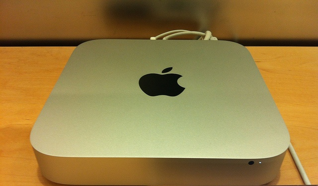 Mac Mini 2011 Intel Core 2 Duo